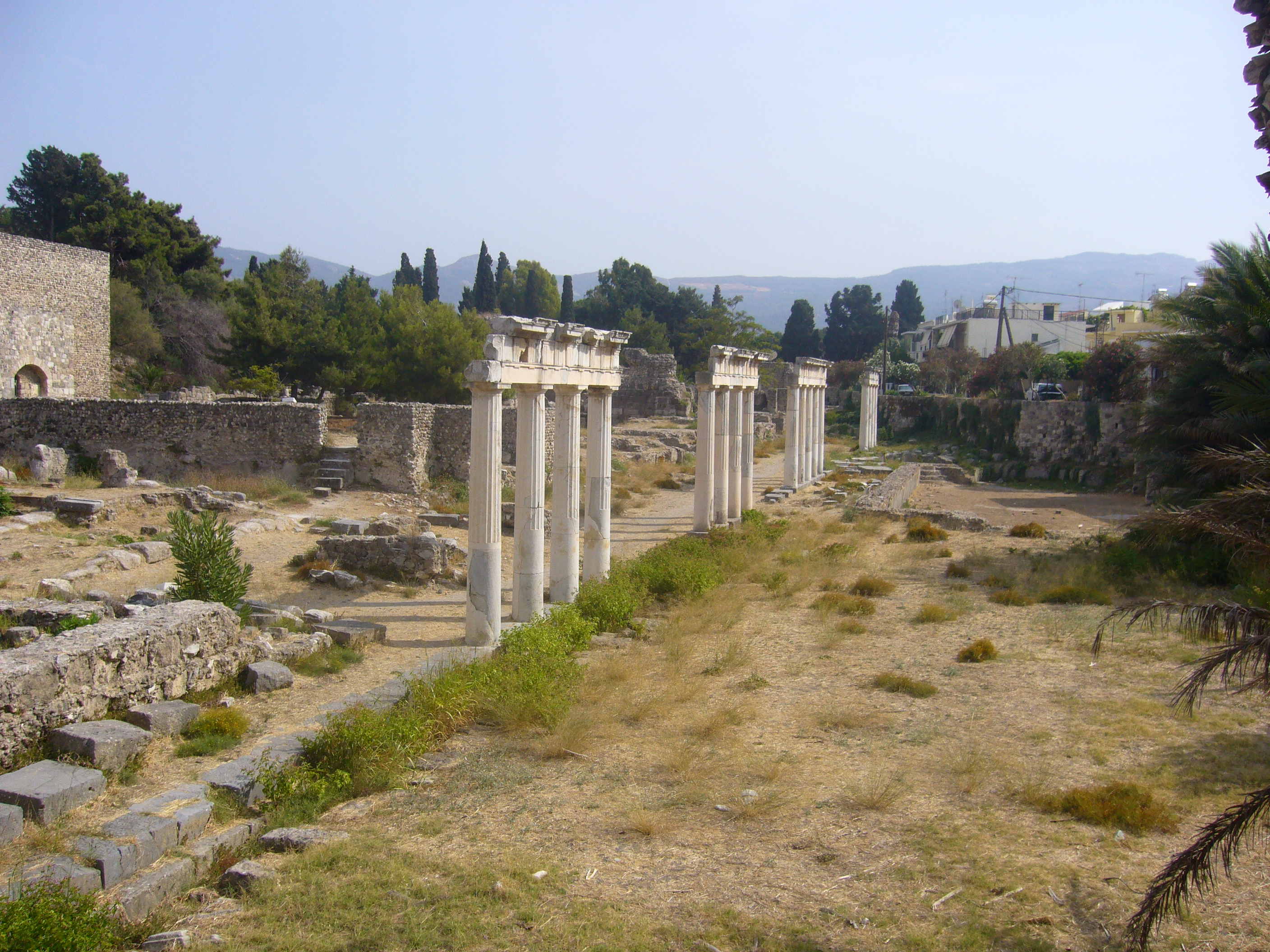 Antické gymnasium ve měste Kós, Řecko